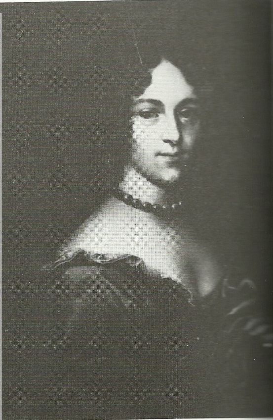 Maria Mohyla